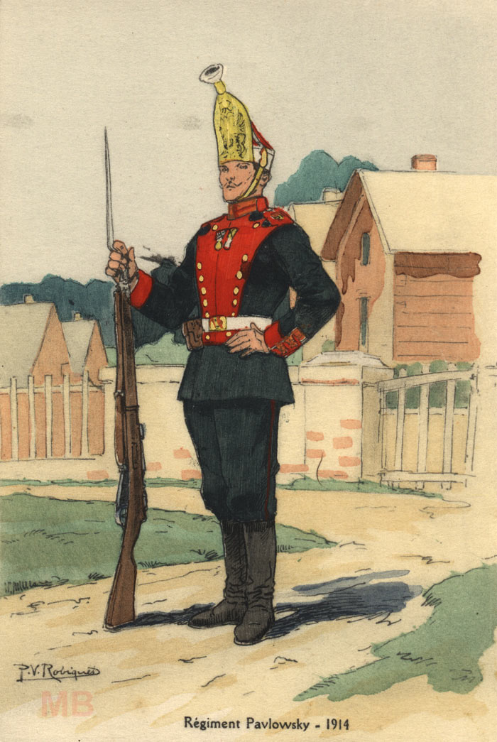 Uniform of Pavlovsky Regiment. 1914 Postcard.